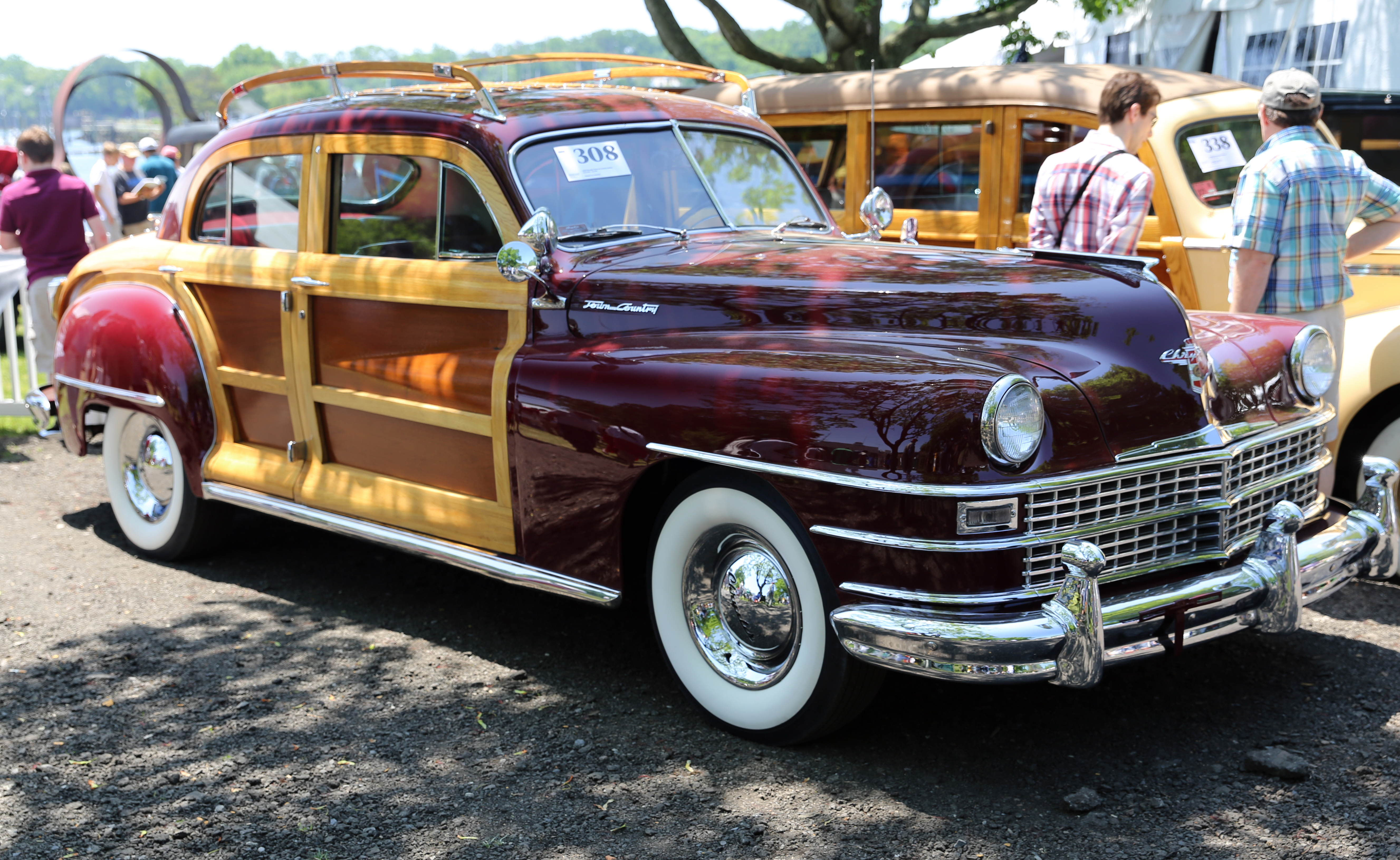 1948 Chrysler Town & Country sedan for sale at the Bonhams auction attached to the 2013 Greenwich Concours d'Elegance.